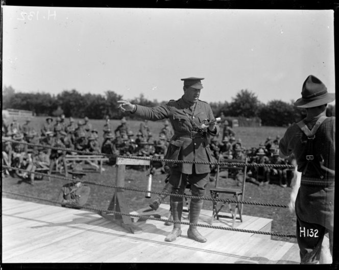 Portrait of Colonel Plugge, OC Recreation, standing in the ring at the New Zealand Division boxing championships held in Doulieu, France. Plugge was responsible for coordinating Divisional sports events. Photograph taken 6 or 10 July 1917 by Henry Armytage Sanders.